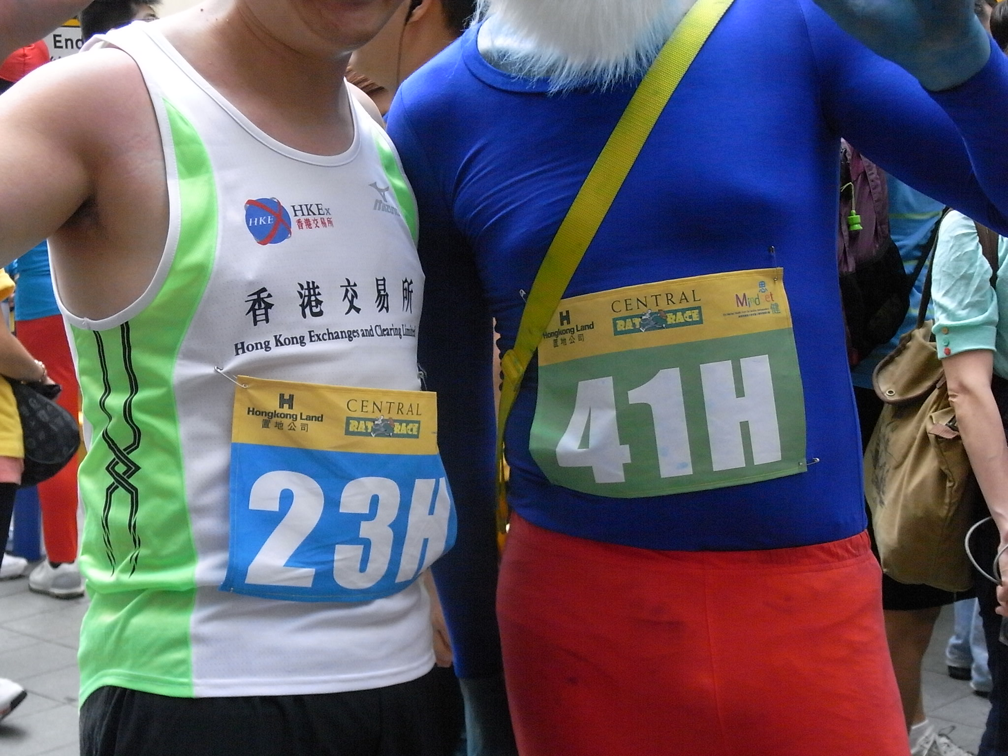 香港島 遮打道, Chater Road, Central, Hong Kong